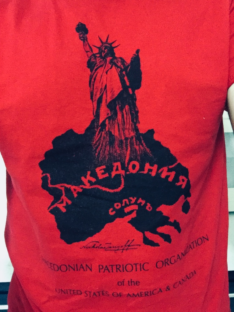 T-shirt sold at a MPO convention in the 1980s.